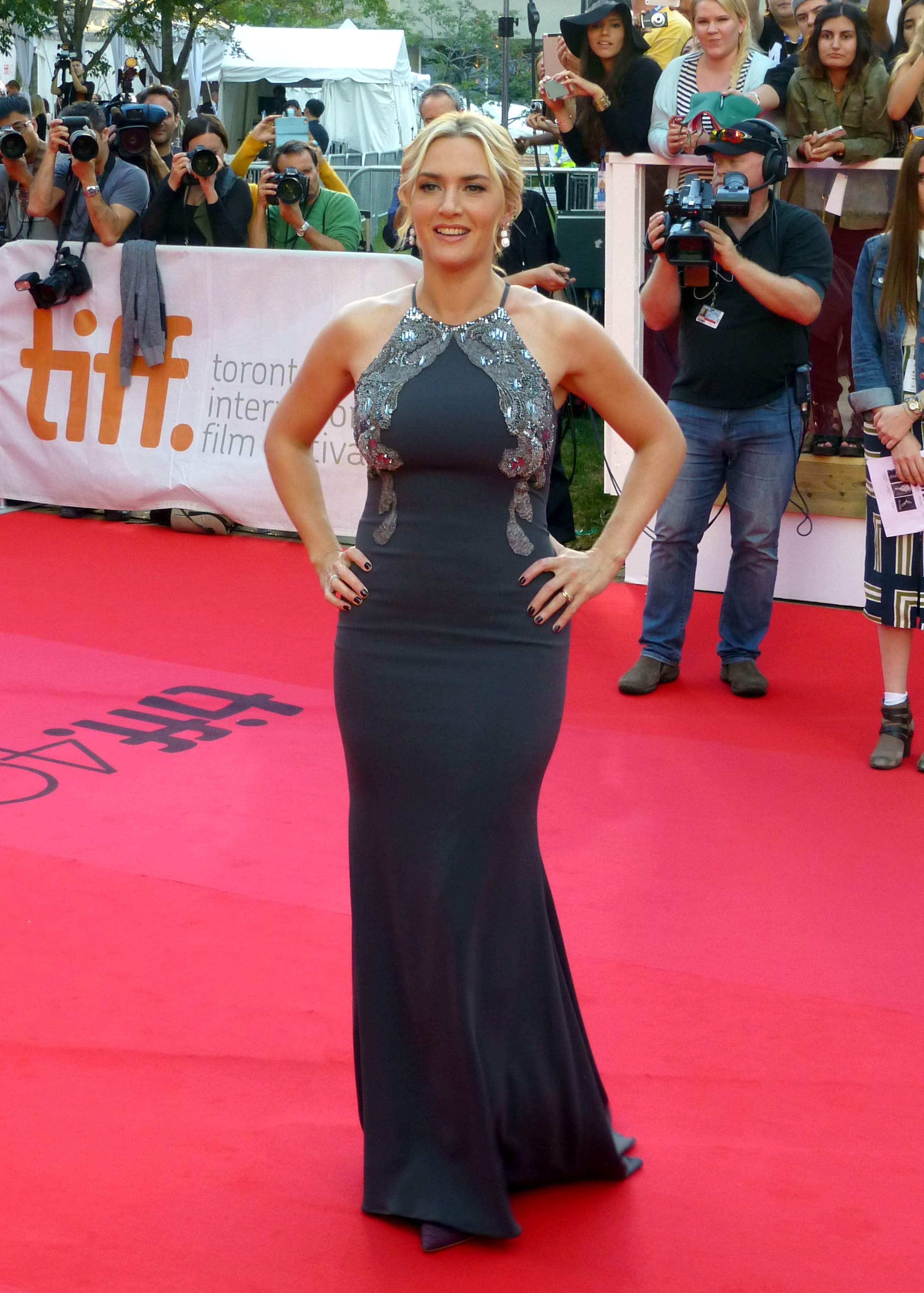 Kate Winslet at The Dressmaker event TIFF